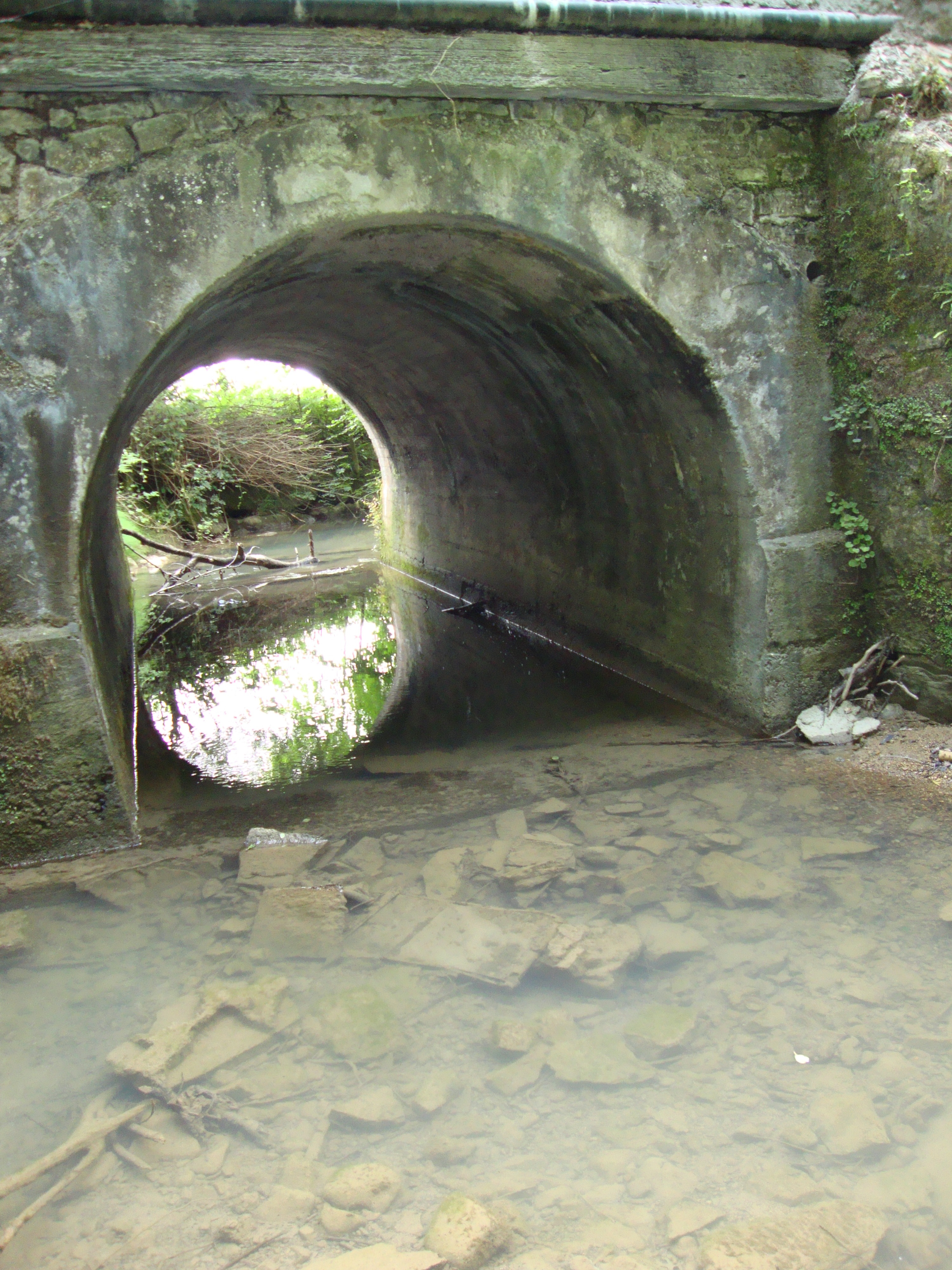 Oloron-Sainte-Marie (Pyr-Atl, Fr) Bélandre, small side river of Vert river, at Bédécarats, Oloron-Saint-Pée. la Bélandre sur SANDRE